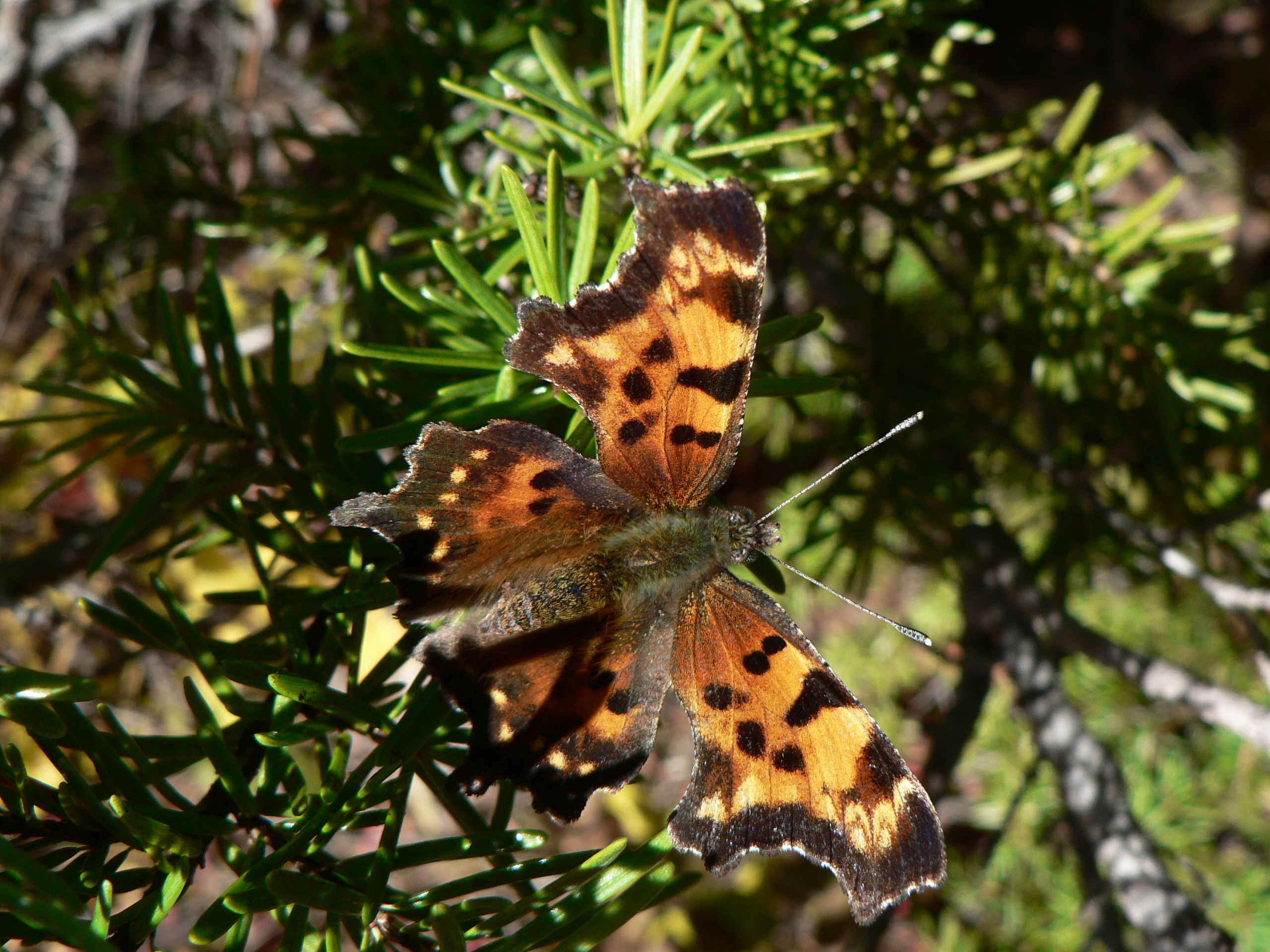 Green Comma on Pacific Silver Fir